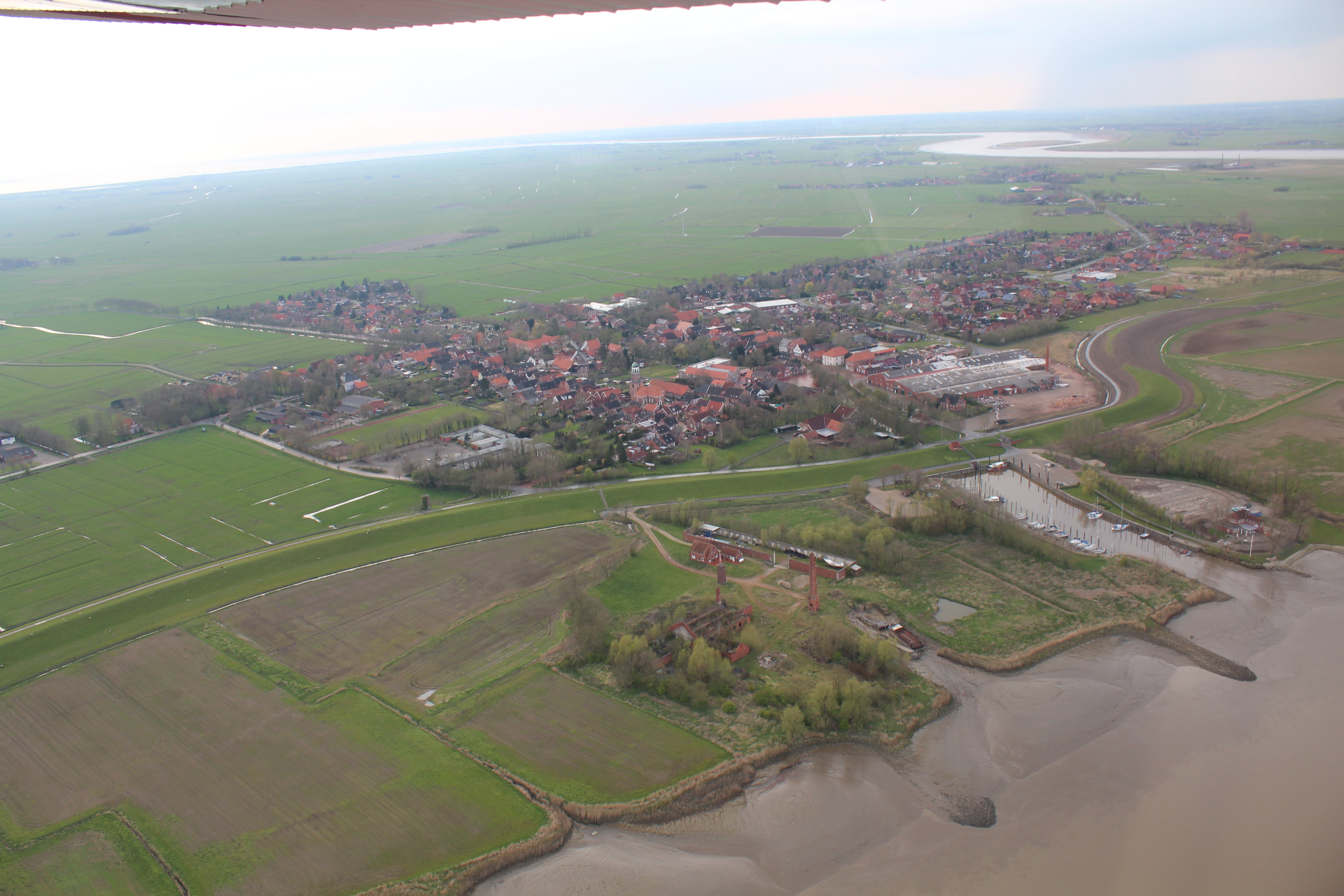 Aerial view of Jemgum